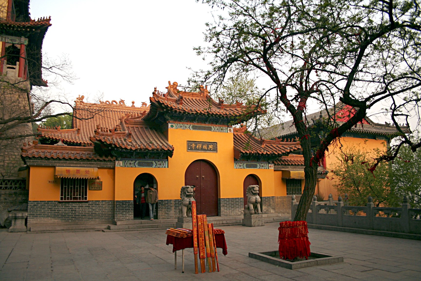 Xingguochan Temple on the Thousand Buddha Mountain, Jinan, Shandong Province, China.